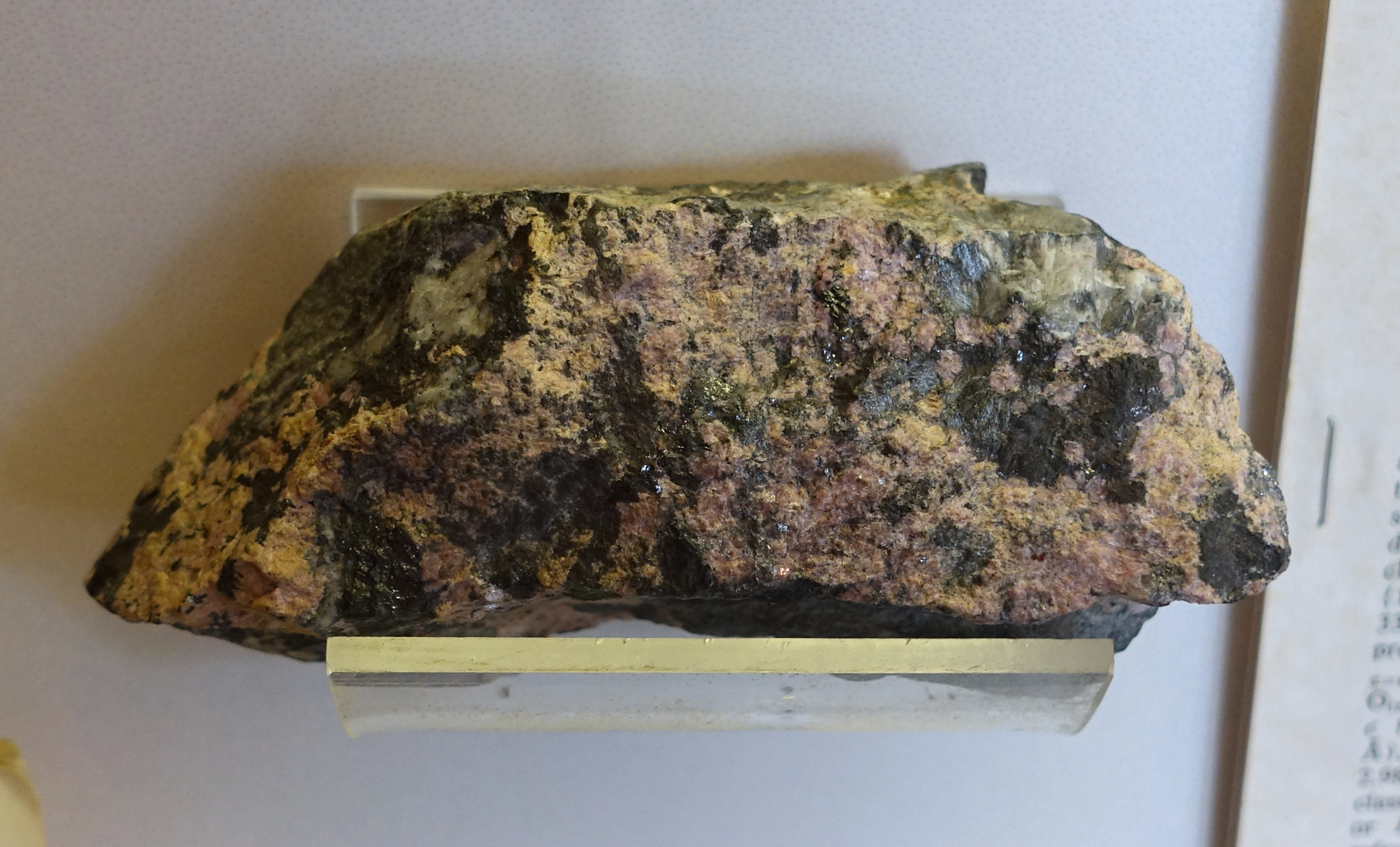 Exhibit in the Redpath Museum, McGill University - Montreal, Quebec, Canada.